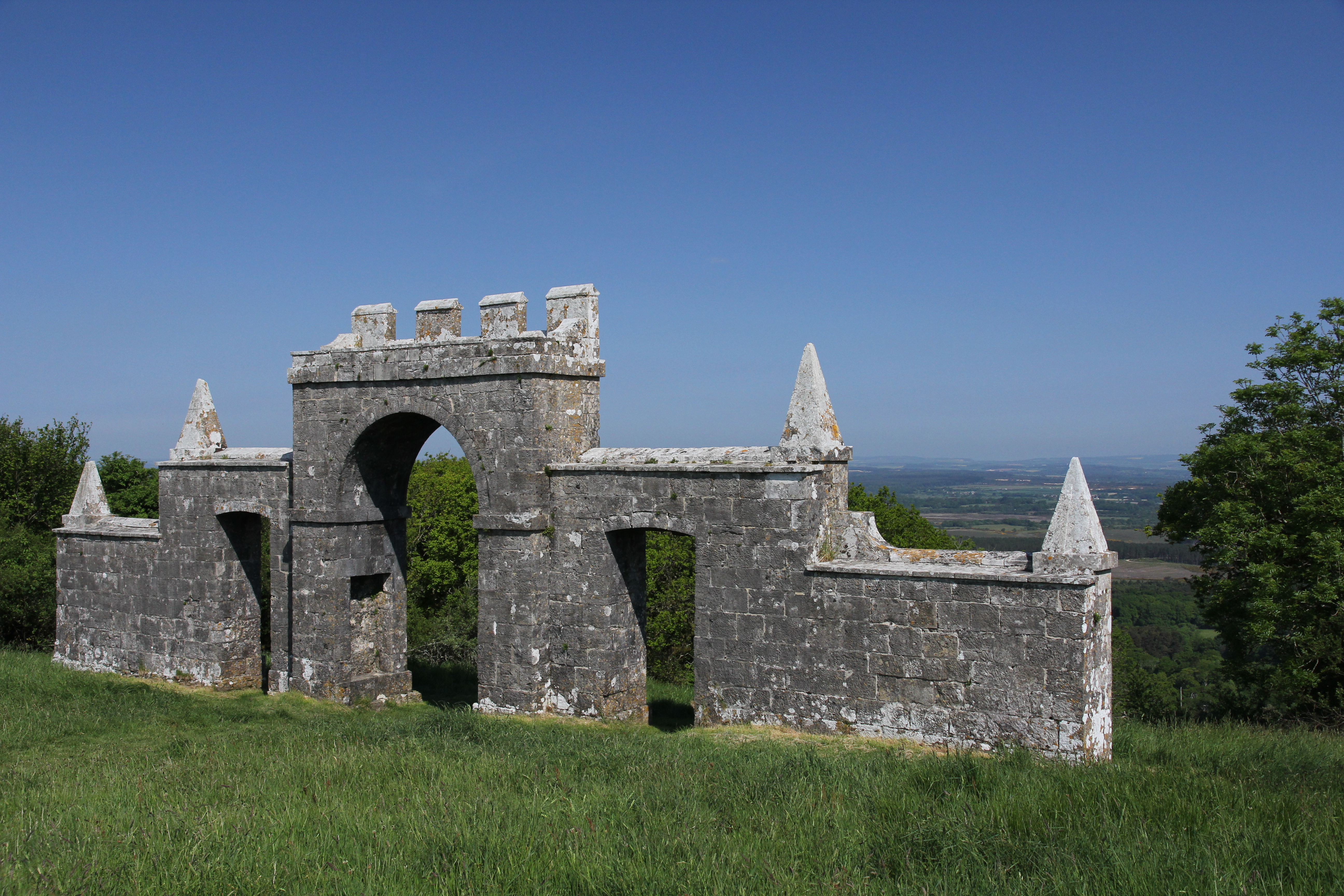 Grange Arch, the folly above Creech Grange in the Purbecks, Dorset, England.